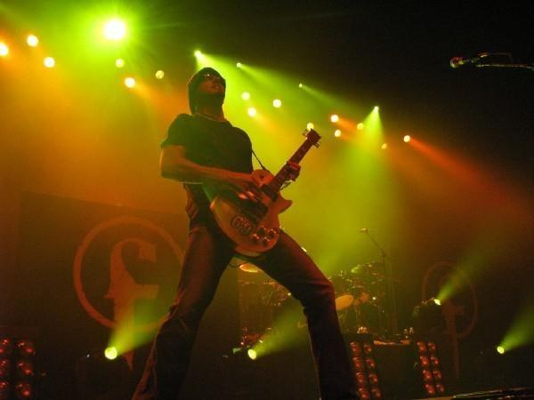 Carl Bell performing with the band FUEL